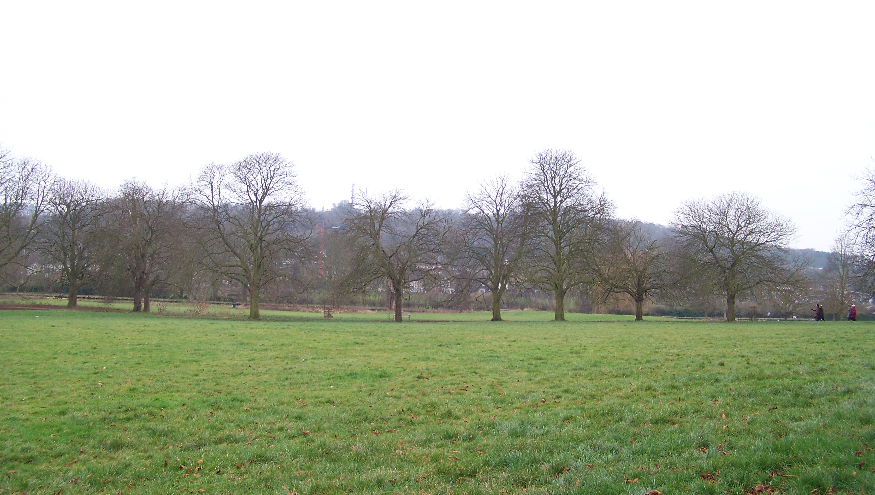 View across Blackbirds Moor, Boxmoor, England. Common land managed by Boxmoor trust and used for recreation.